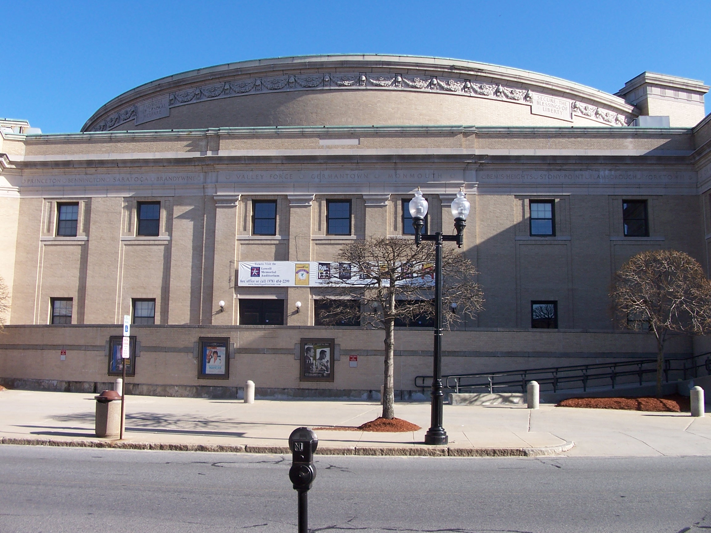 East Merrimack Street side of the Lowell Memorial Auditorium in Lowell, Massachusetts. This side of the building memorializes Revolutionary War battles.